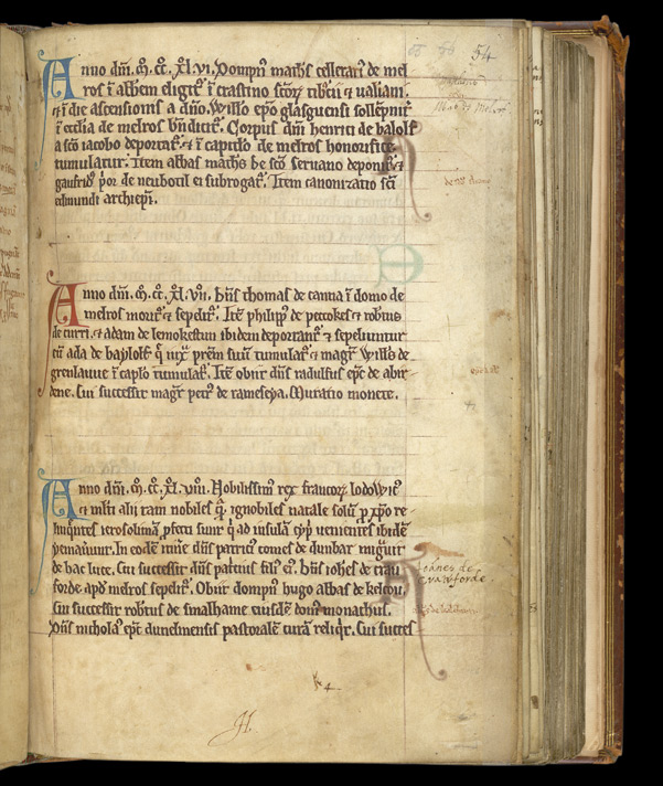 Folio 55r from Cotton MS Faustina B IX. This is the oldest surviving copy of the Chronicle of Melrose.